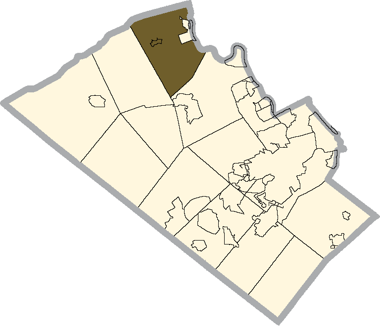 Washington Township shaded on the Lehigh county map.